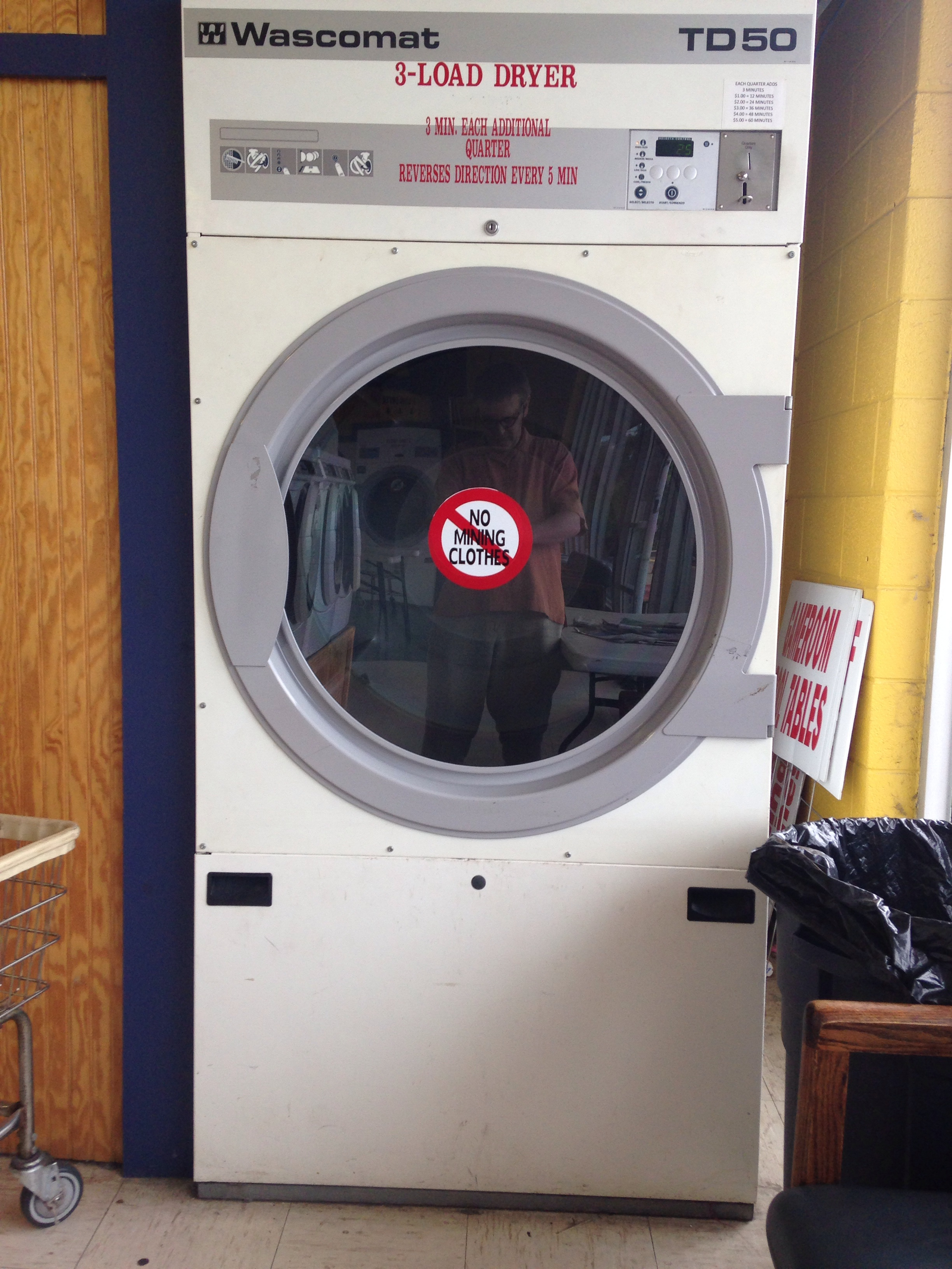 A coin-operated 'triple load' commercial clothes dryer.